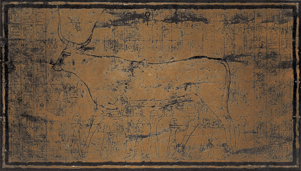 A scene from the Book of the Heavenly Cow as depicted in the tomb of Tutankhamun, Valley of the Kings location KV62, on the interior back panel of Shrine I. It depicts the sky goddess Nut in her bovine form, being held up by her father Shu, the god of the air. Aiding Shu are the eight gods of the Ogdoad. Across the belly of Nut (representing the visible sky) sails the sun god in his day barque.